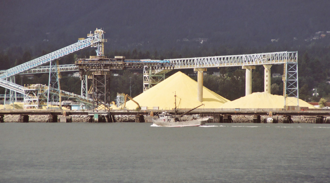 Large sulfur pile at North Vancouver, B.C., Canada. This is brought by rail from the adjacent province of Alberta. This is a loading station for large bulk transport ships. For the Sulfur article. Image taken by User:Leonard G. June 13, 2005. Photographers note: this was a day of over 9/10 cloud cover, with small, bright patches of sunlight passing through the area. This was the most satisfactory result of a number of attempts to catch the sulfur piles in sun and other regions in cloud shadow. Camera: single lens 35mm reflex with 28-208mm zoom, ASA 200 color negative.